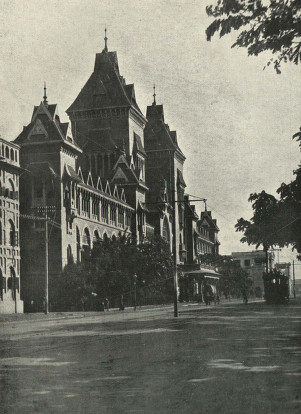 Many of the more important Commercial and Public offices are situated in First Line Beach. Viewed from the sea. George Town appears to consist of this frontage only, so flat is the land beyond.